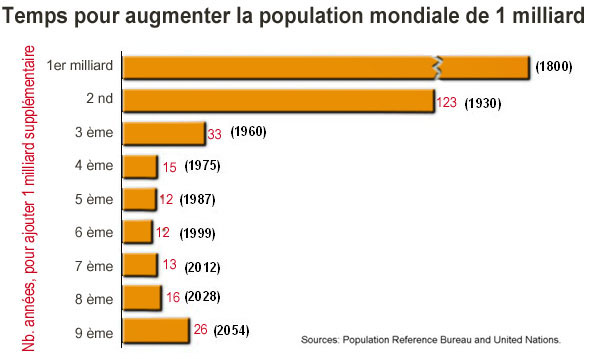 Time for world population to increment by one billion.